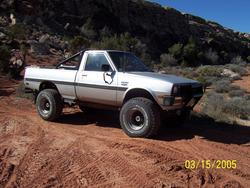 1985 Misubishi Pickup